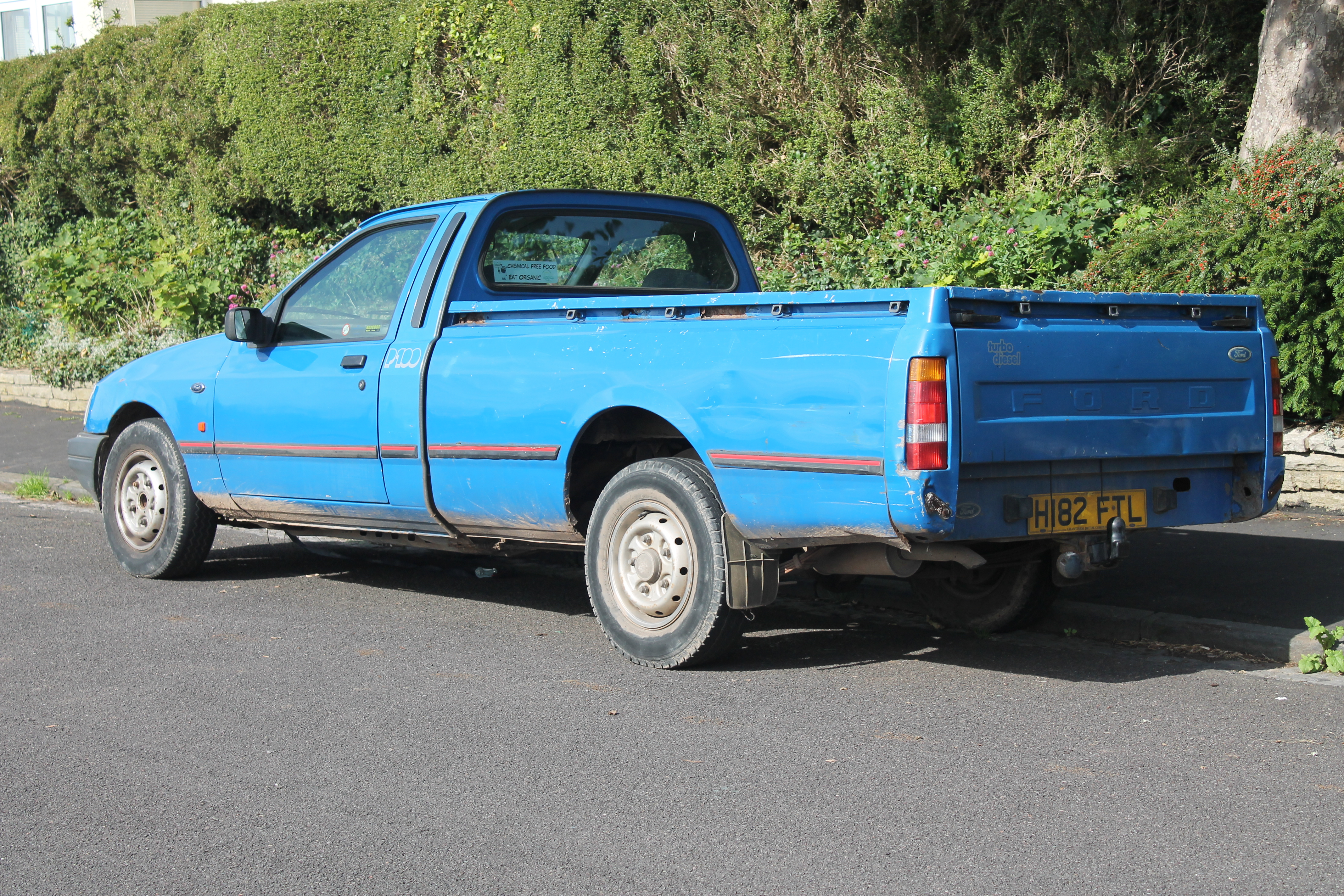 1.8 turbo diesel Ford P100 which is basically a Sierra front end! Interesting, and still looks like a good workhorse. Surprisingly still a good few (for now) on the roads.